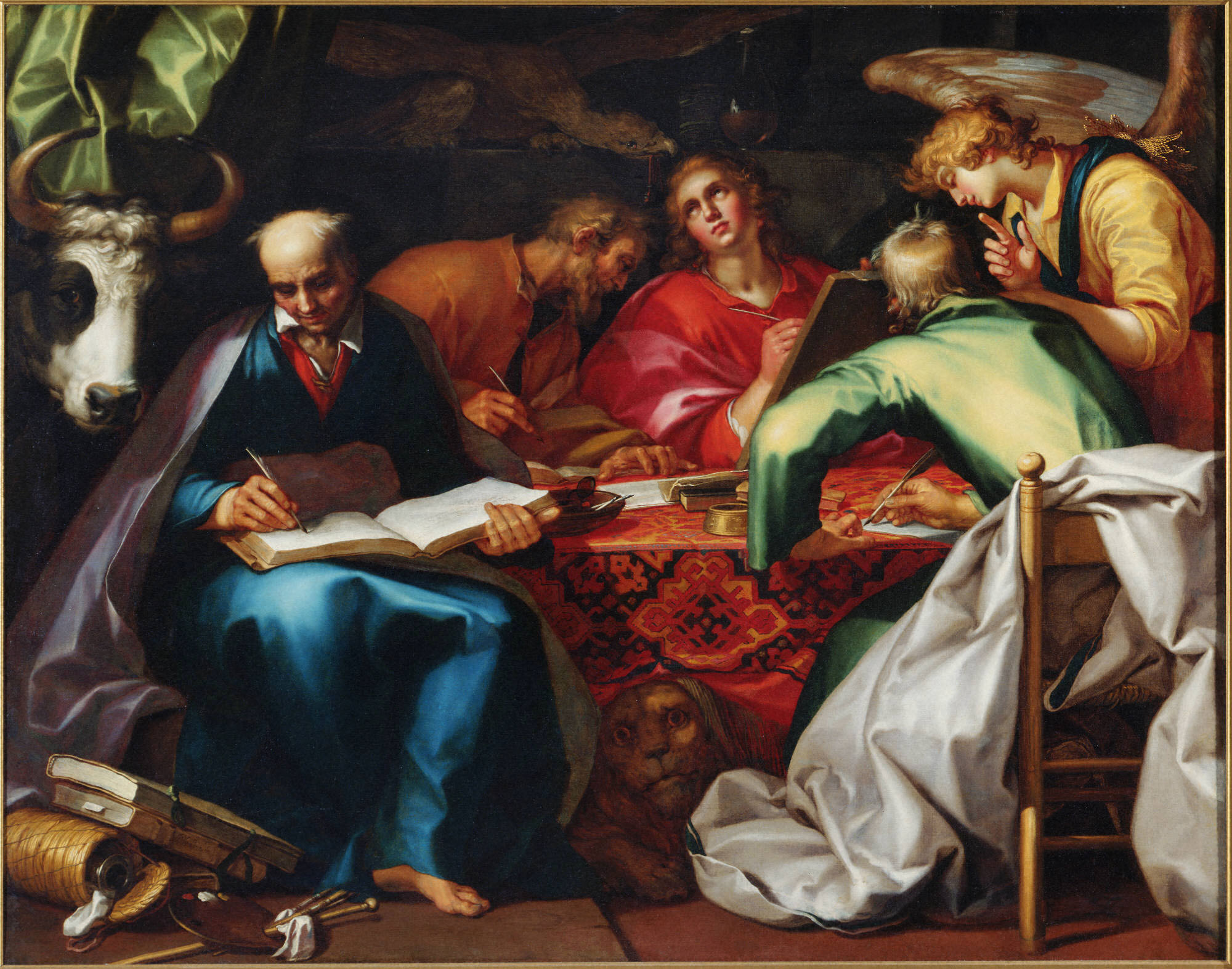 The four evangelists traditionally appeared alone, but in 1526, Albrecht Dürer showed two groups of two evangelists, and about 1566, Frans Floris showed all four together. Other artists followed suit. Bloemaert’s student Hendrick Terbruggen (1588–1629) and Peter Paul Rubens prolonged the theme, but it disappeared after 1621. Here the Utrecht painter attempts to unify the evangelists and their symbols in a logical, horizontal composition. Luke with his ox, Mark with his lion, John with his eagle, and Matthew with his angel are gathered around a table, each figure intently writing his Gospel. Mark’s lion peeks out from underneath a heavy carpet. Bloemaert boldly poses Matthew with his back toward the viewer, perhaps to convey an impression of an uncontrived gathering of figures in a realistic setting. The scene is set in a shallow space, but the vibrant coloring of the figures, the angularity of their poses, and the frontal lighting give the composition a feeling of depth. Various naturally observed details stand out, such as the broken rush seat of Matthew’s humble chair and Luke’s ox, which gazes out from this learned gathering. The patron saint of artists and doctors, Luke is shown with the tools of these professions, including the artist’s palette and the doctor’s bottle for urine samples, and he is writing the Gospel in Greek characters. One of the folio volumes at his feet bears Bloemaert’s signature on the spine. Utrecht was a Catholic stronghold, and Bloemaert, a practicing Catholic, was a founding member of its painter’s guild in 1611; he had patrons in both the Northern and the Southern Netherlands. The location for which this painting was commissioned has not been identified. The subject of the four evangelists appealed to both Catholics and Protestants, so it might have been a "safe" subject for a Northern Netherlandish Catholic church.